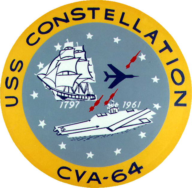 Insignia of the U.S. Navy aircraft carrier USS Constellation (CVA-64): Artwork of the emblem adopted when the ship was first commissioned in 1961. It was photographed on 20 October 1962. In a star-spangled blue field, the design features symbols of Constellation and her name. The stars are, of course, a stellar constellation, the original source of the ship's name. The first USS Constellation, the frigate of 1797, is shown at left. CVA-64, her aircraft and her guided missile battery are represented by the other figures.